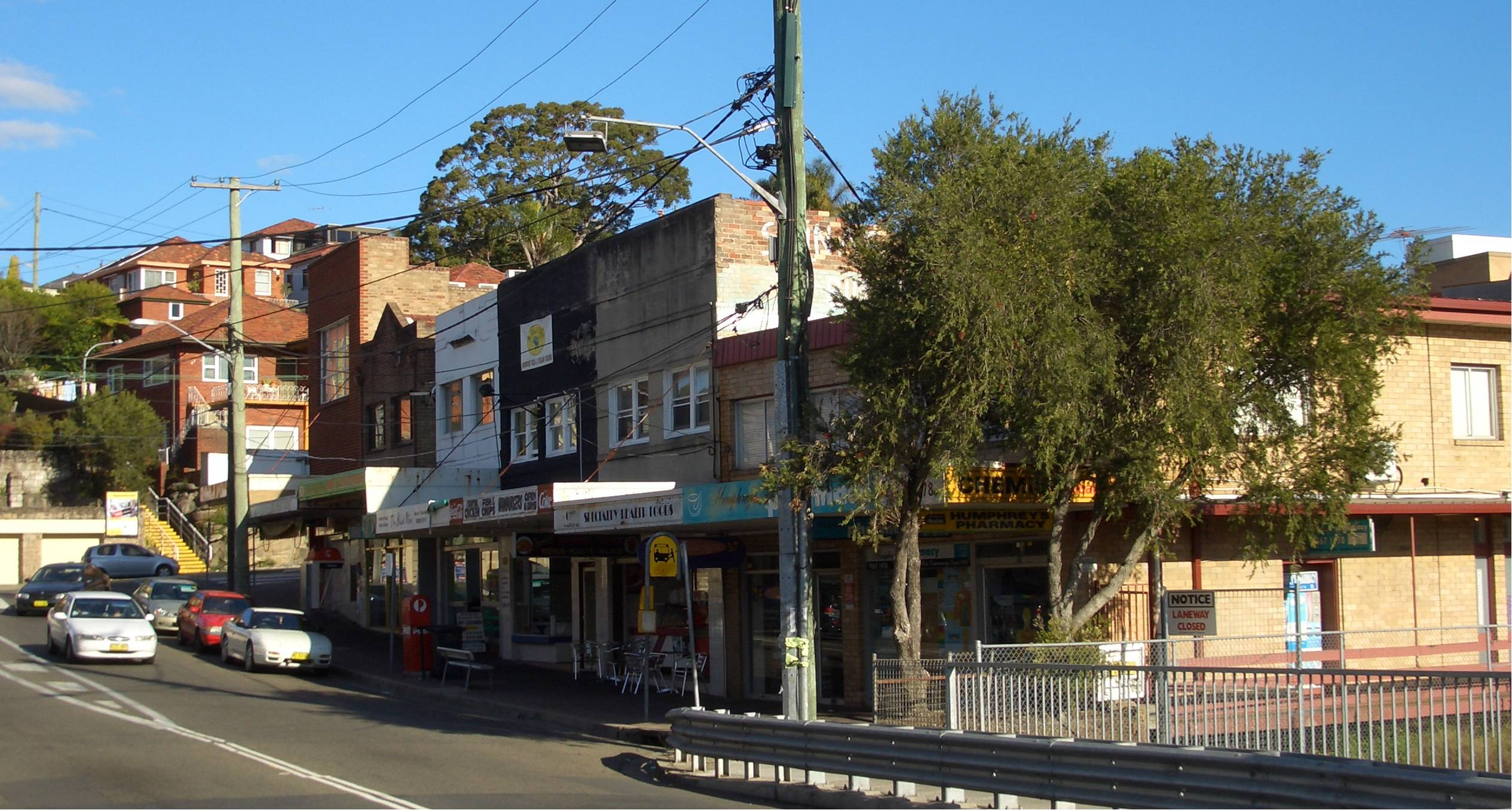 Bardwell Park Shop, Hartill-Law Avenue (south)